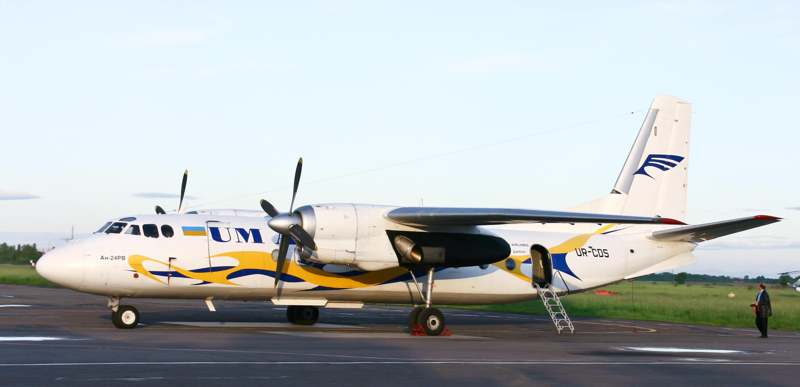 Antonov An-24 turboprop transport at airport Uzhhorod, Ukraine